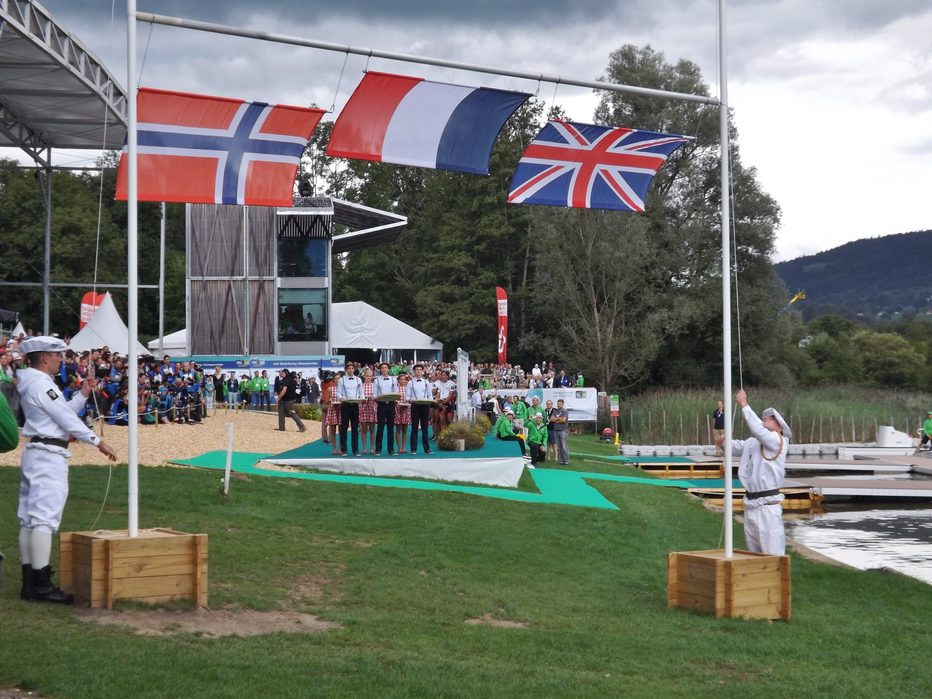 Medals ceremony, won by France, Great Britain and Norway, during the 2015 World Rowing Championships taking place on the lac d'Aiguebelette lake, in Savoie, France.